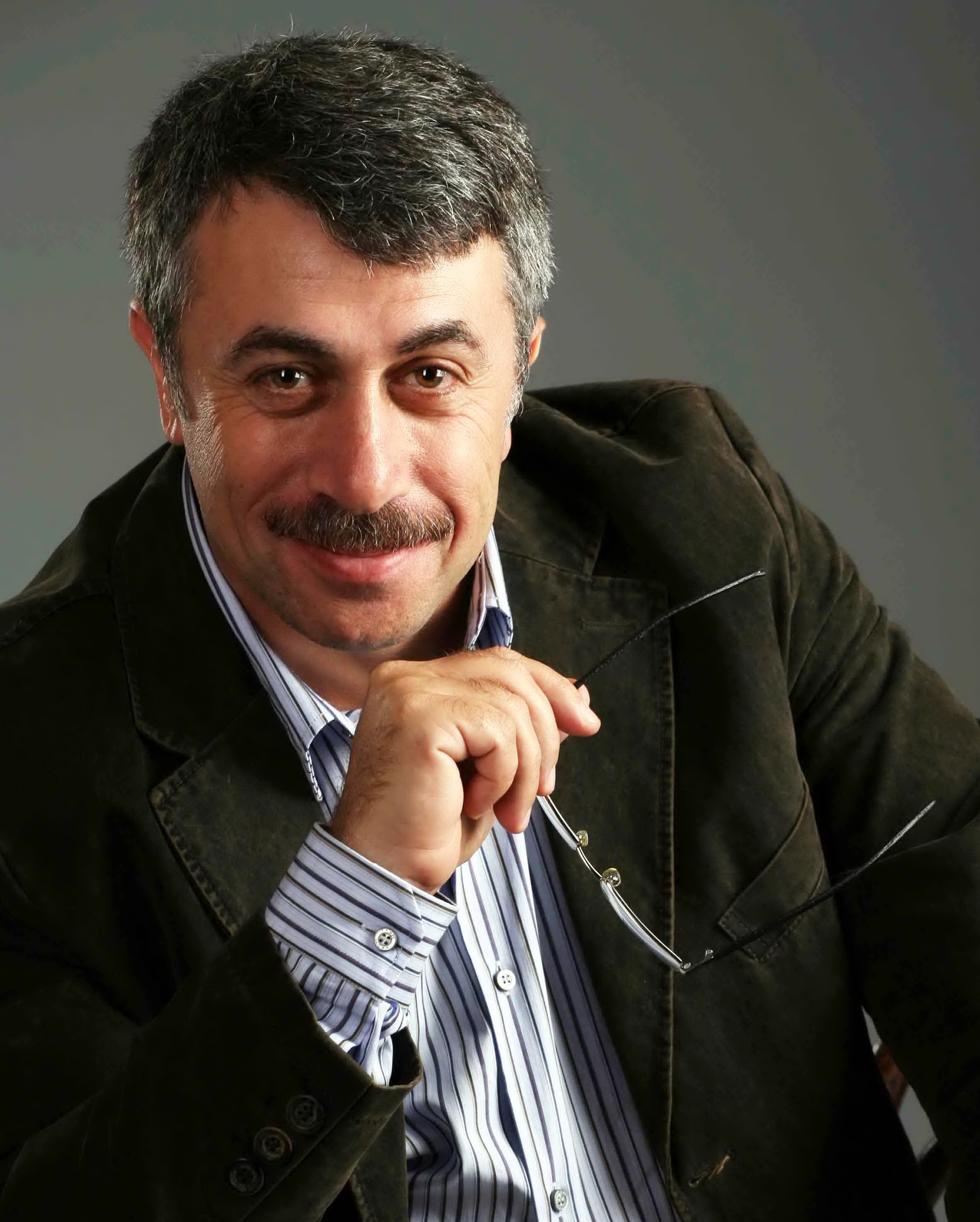 Eugene Komarovskiy